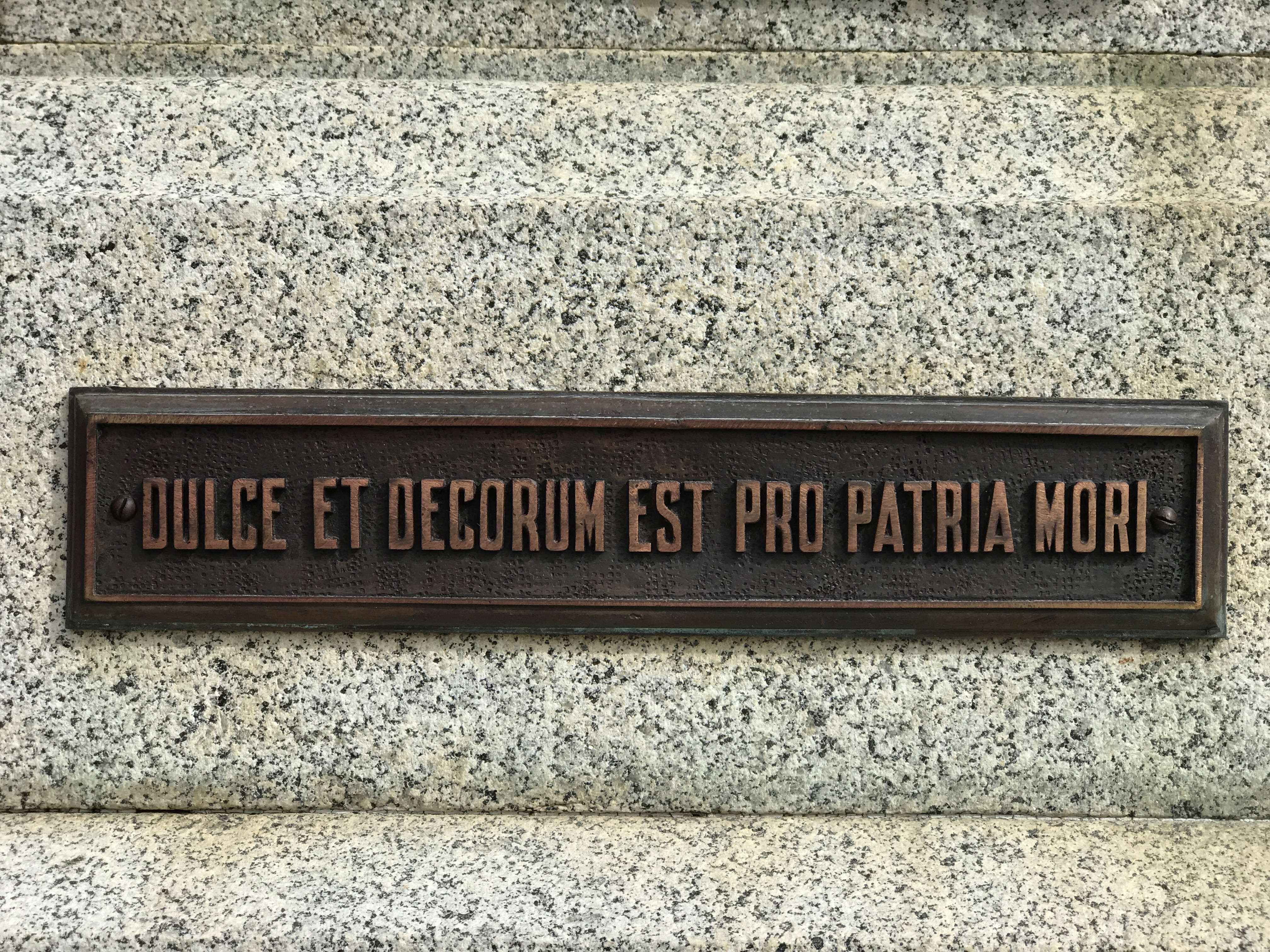 Dulce et decorum est pro patria mori Inscription at Graceville War Memorial, Brisbane, Queensland